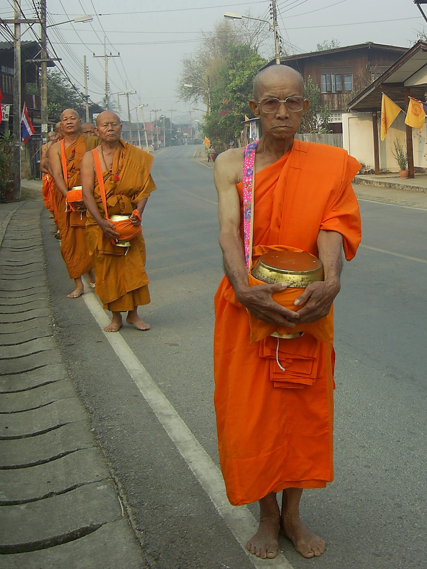 Phrae, Thailand